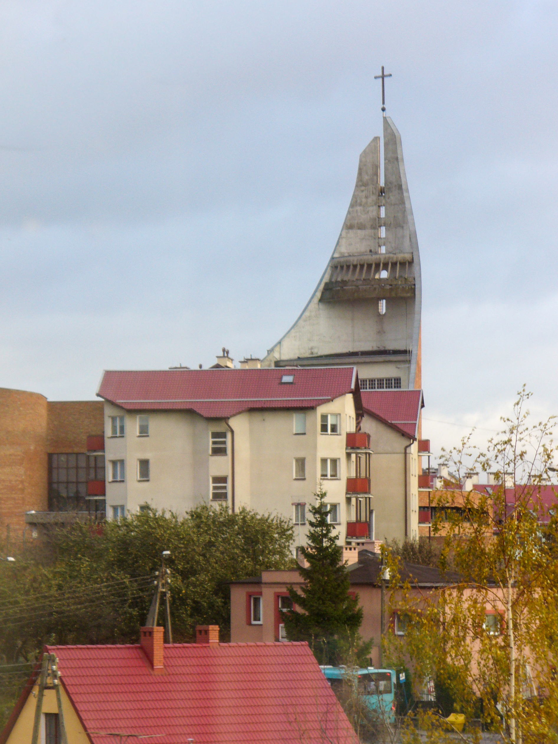 Church in Tczew